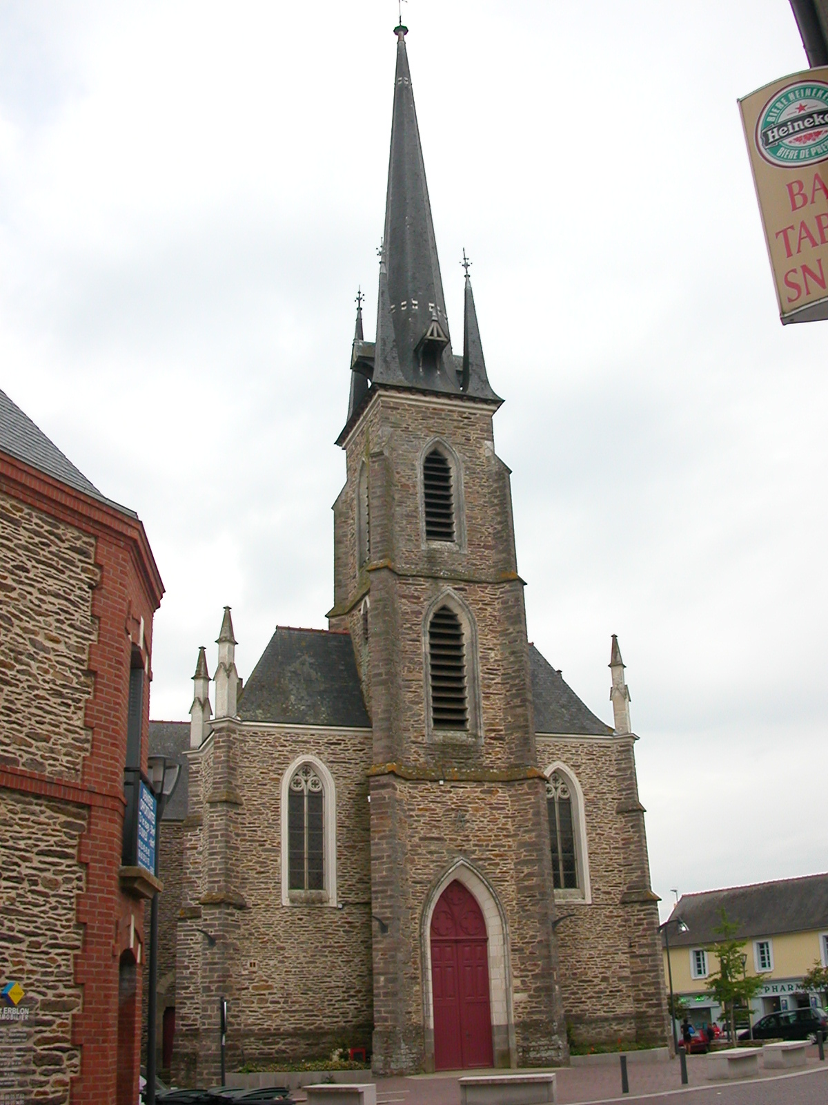 Church of Saint-Erblon